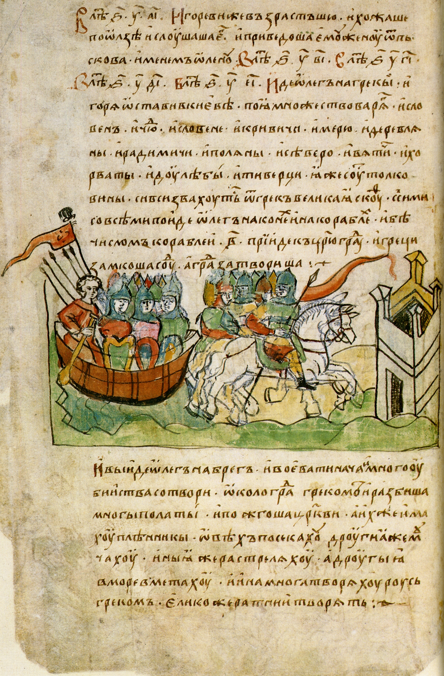 Radziwill Chronicle, fol. 14v Miniature: Oleg of Novgorod's campaign against Constantinople (s. Rus'–Byzantine War 907).